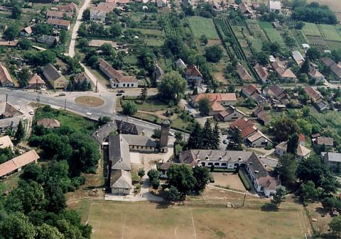 Vajta, Hungary, aerialphotgraphy